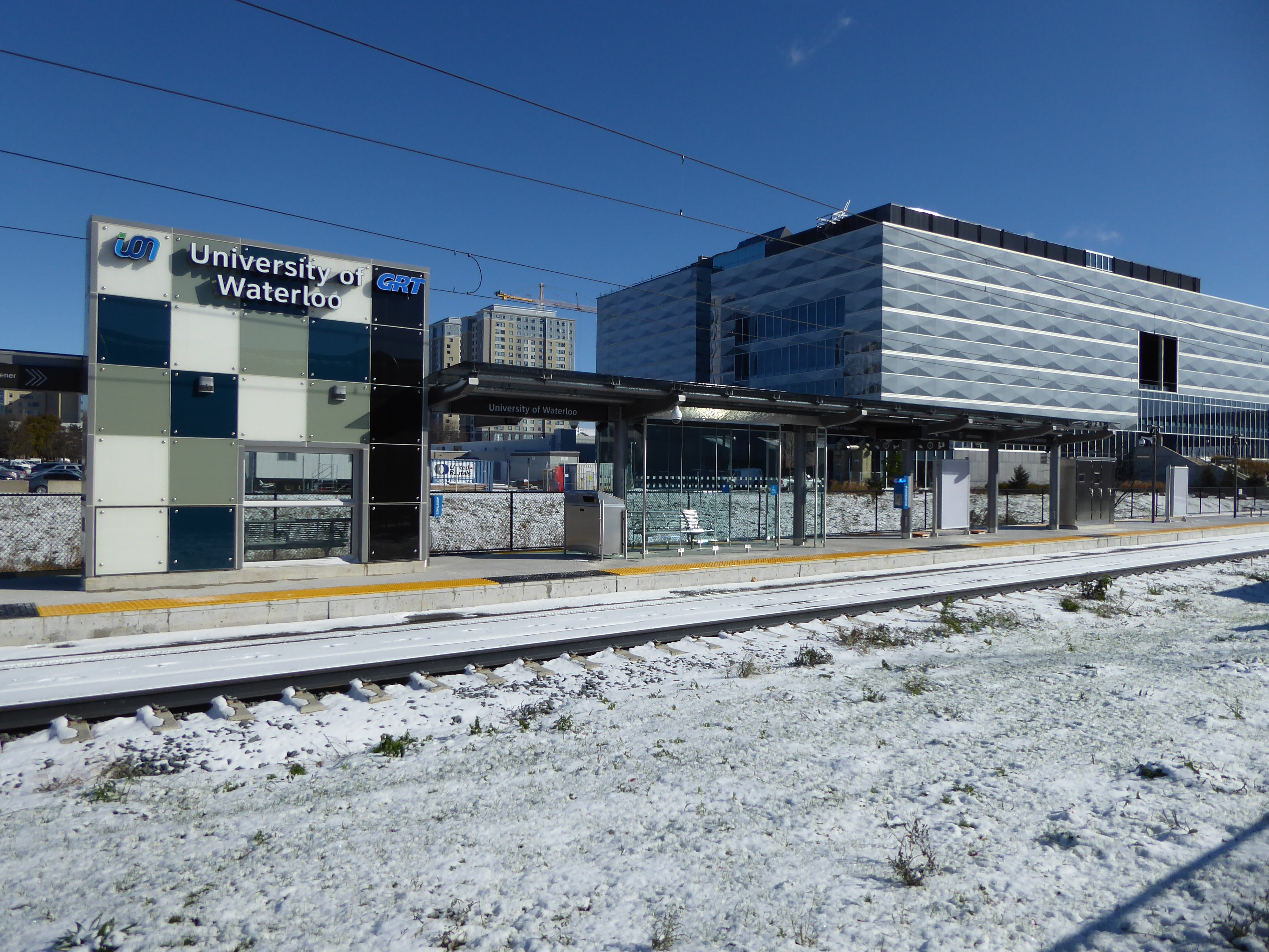 University of Waterloo Station of the Ion rapid transit system, photographed structurally complete November 2017